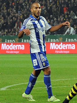 Haitam Aleesami, IFK Göteborg